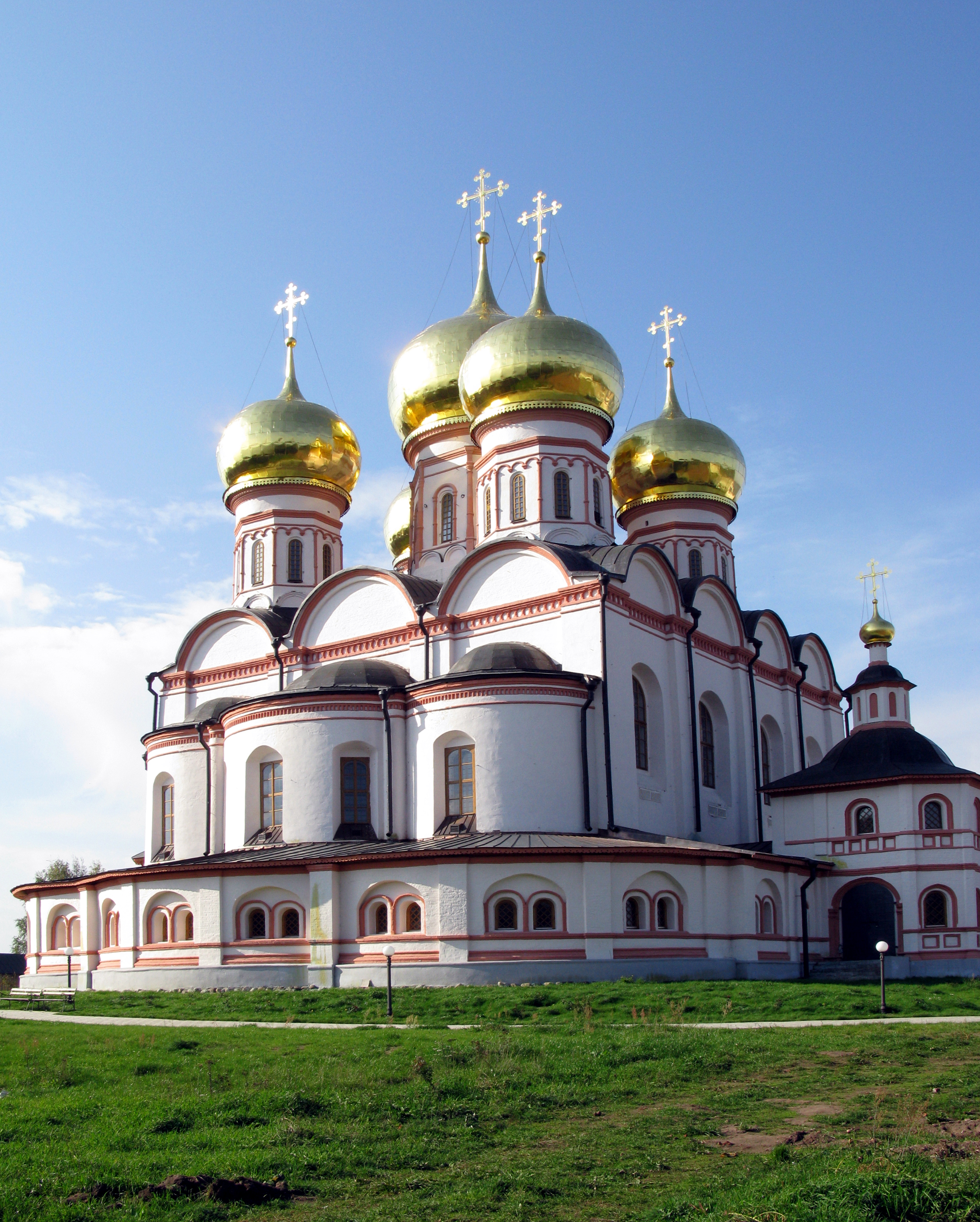 Cathedral of the Theotokos of Iviron in Iversky Monastery (Valdai, Veliky Novgorod region).